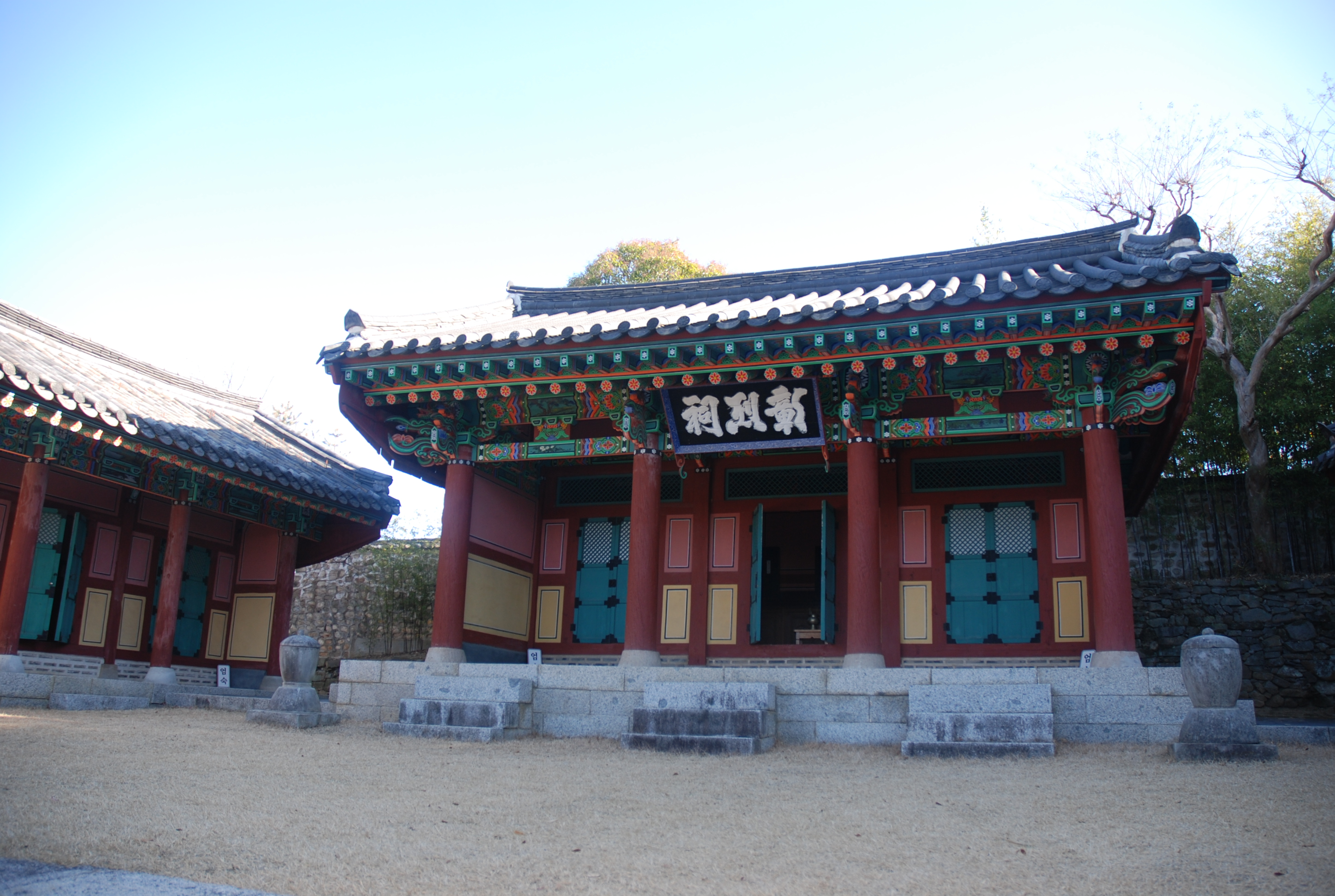 Changryeol Shrine admiring the war dead in 1592~1593 against Japanese Soldiers